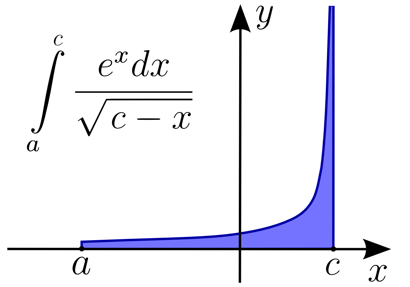 Own creation